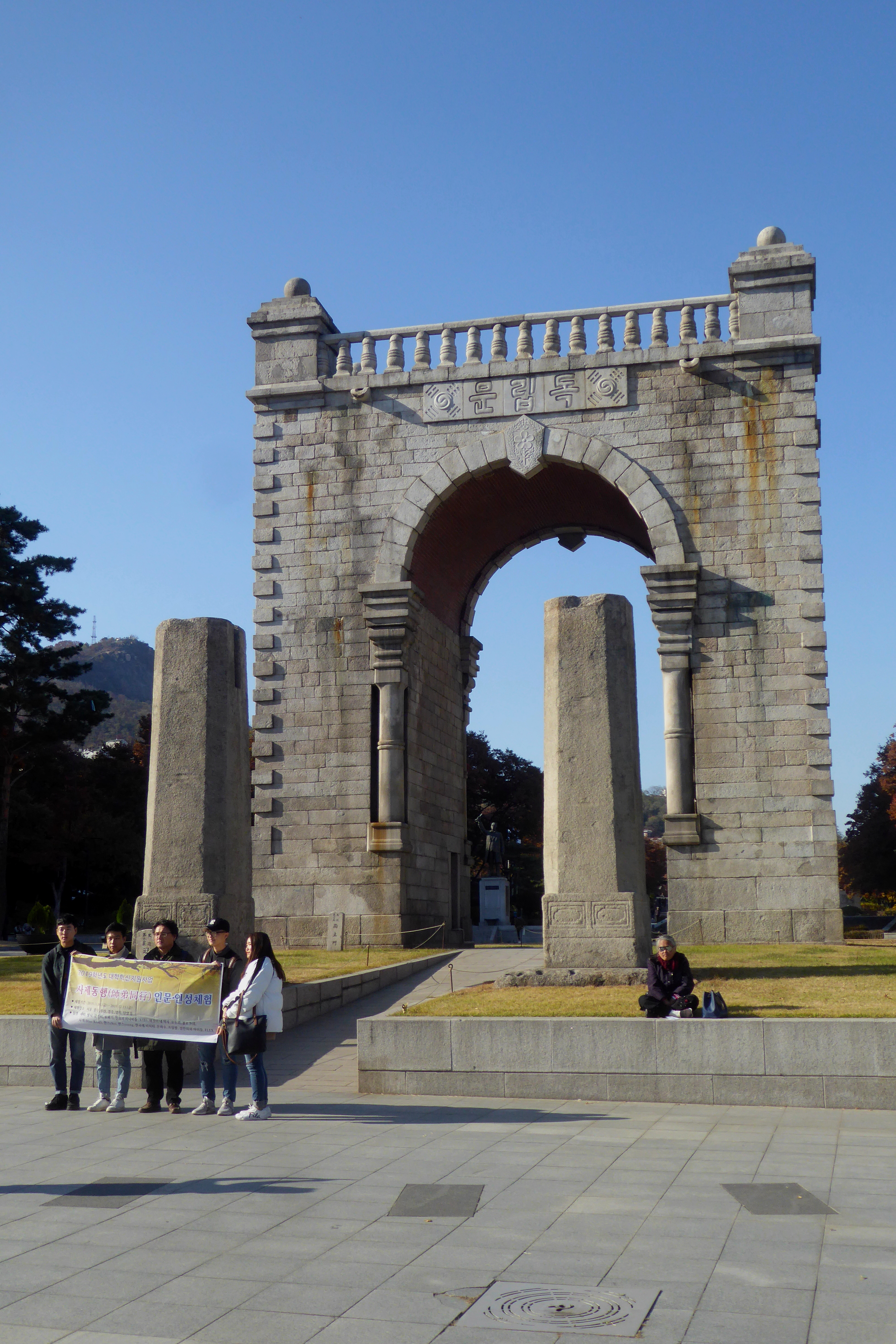 The Dongnimmun Gate in northern Seoul.